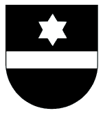 Coat of arms of Dietersweiler in Freudenstadt